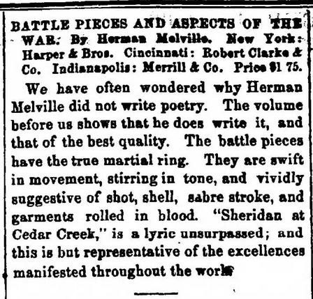 Review of Battle Pieces, a book of poems by Herman Melville